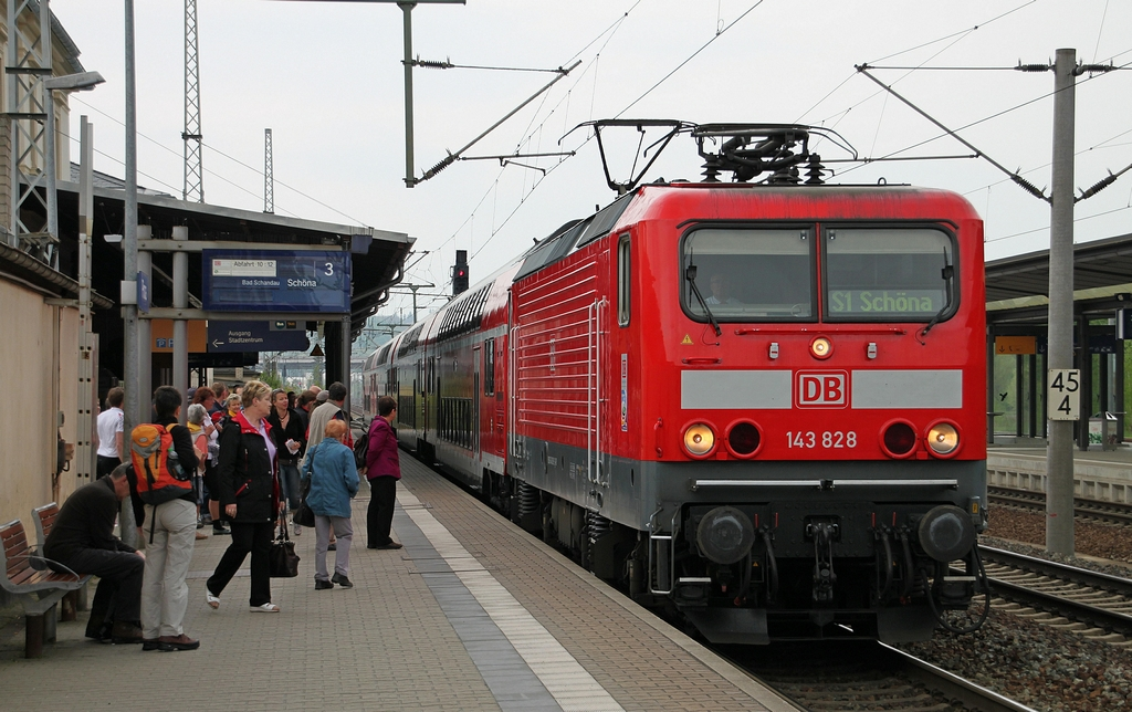 electric locomotive Class 143 (143 828) with a train of the Dresden S-Bahn seen in Pirna.